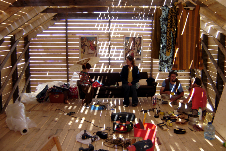 Interior of the Public Attic by Casagrande Laboratory for Helsinki Festival 2004. Photo: Yehia Eweis.